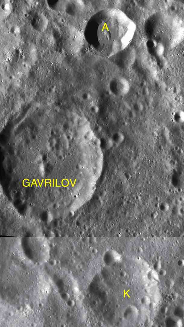 Parts of the charts LAC-48, LAC-66 used for the presentation